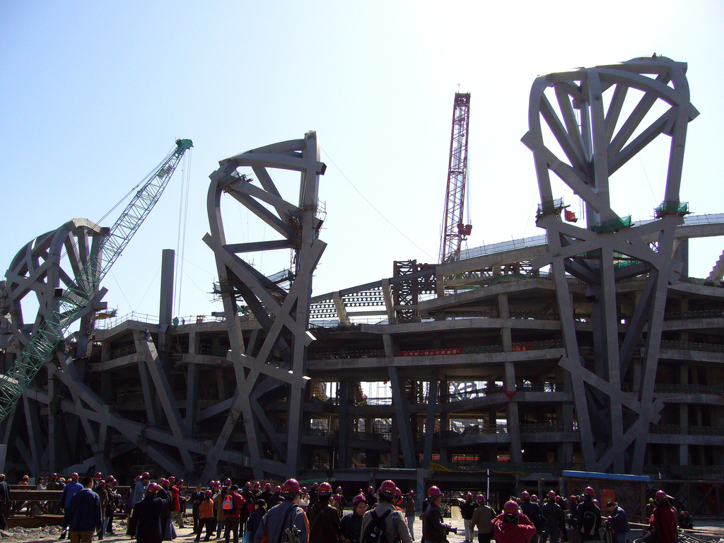 Another view of the extraordinary steel work of Beijing 2008's National Stadium. Looking north-east.